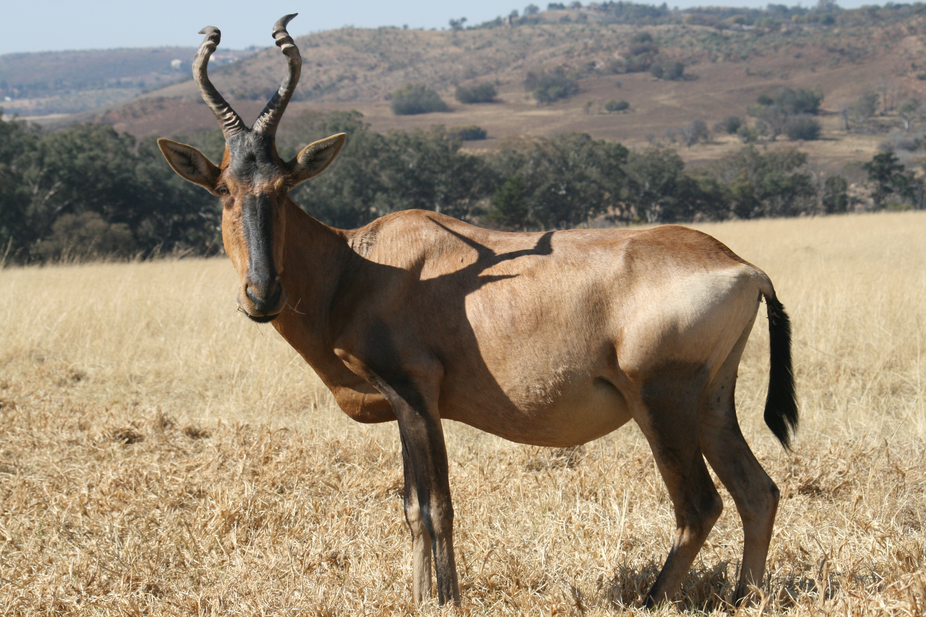 Red Hartebeest (Alcelaphus caama) in the Krugersdorp Nature Reserve